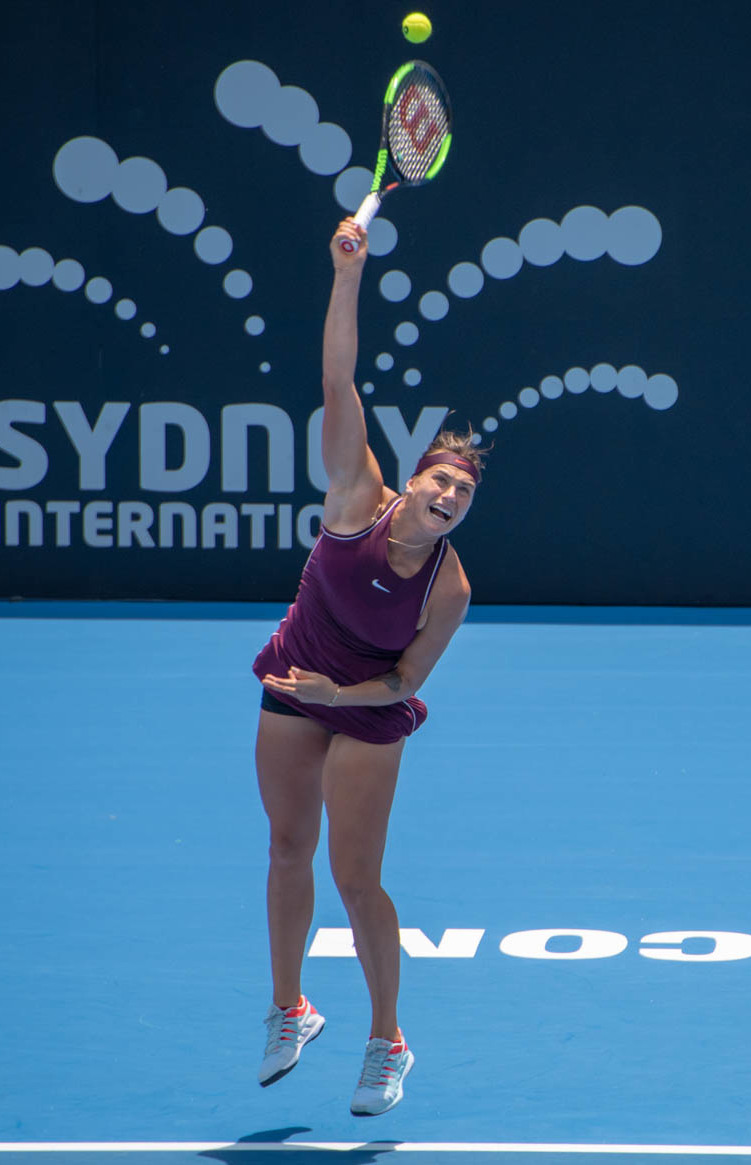 Sydney, Australia - 8 January 2018: Aryna Sabalenka in a round one match against Petra Kvitova, Sydney Olympic Park. (Photo by Rob Keating/robiciatennis.com)